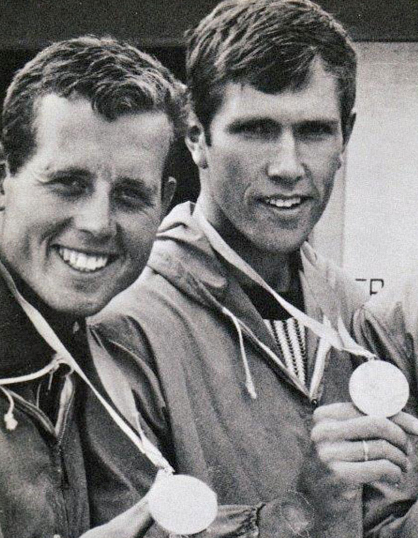 Left-right: Egil Søby, Tore Berger, 1968 Olympics